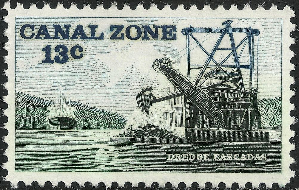 Canal Zone, Dredge cascades, 13c, 1976 Issue